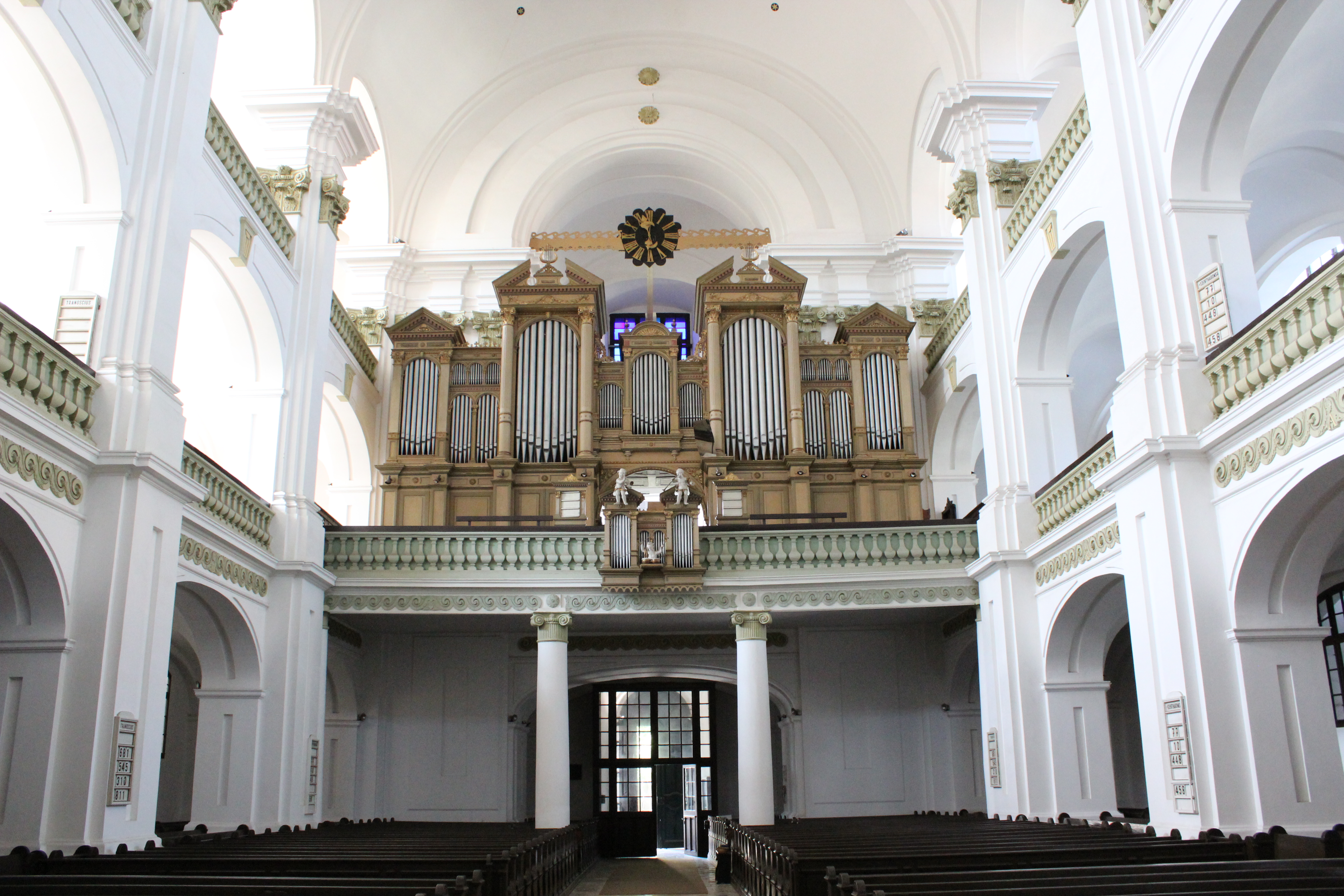 The interior of great evangelic church, with organ (Békéscsaba, Hungary).